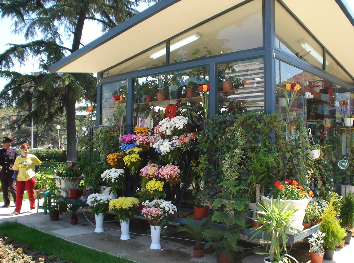 Flower Shop (Florist) Location: Tirana, Albania